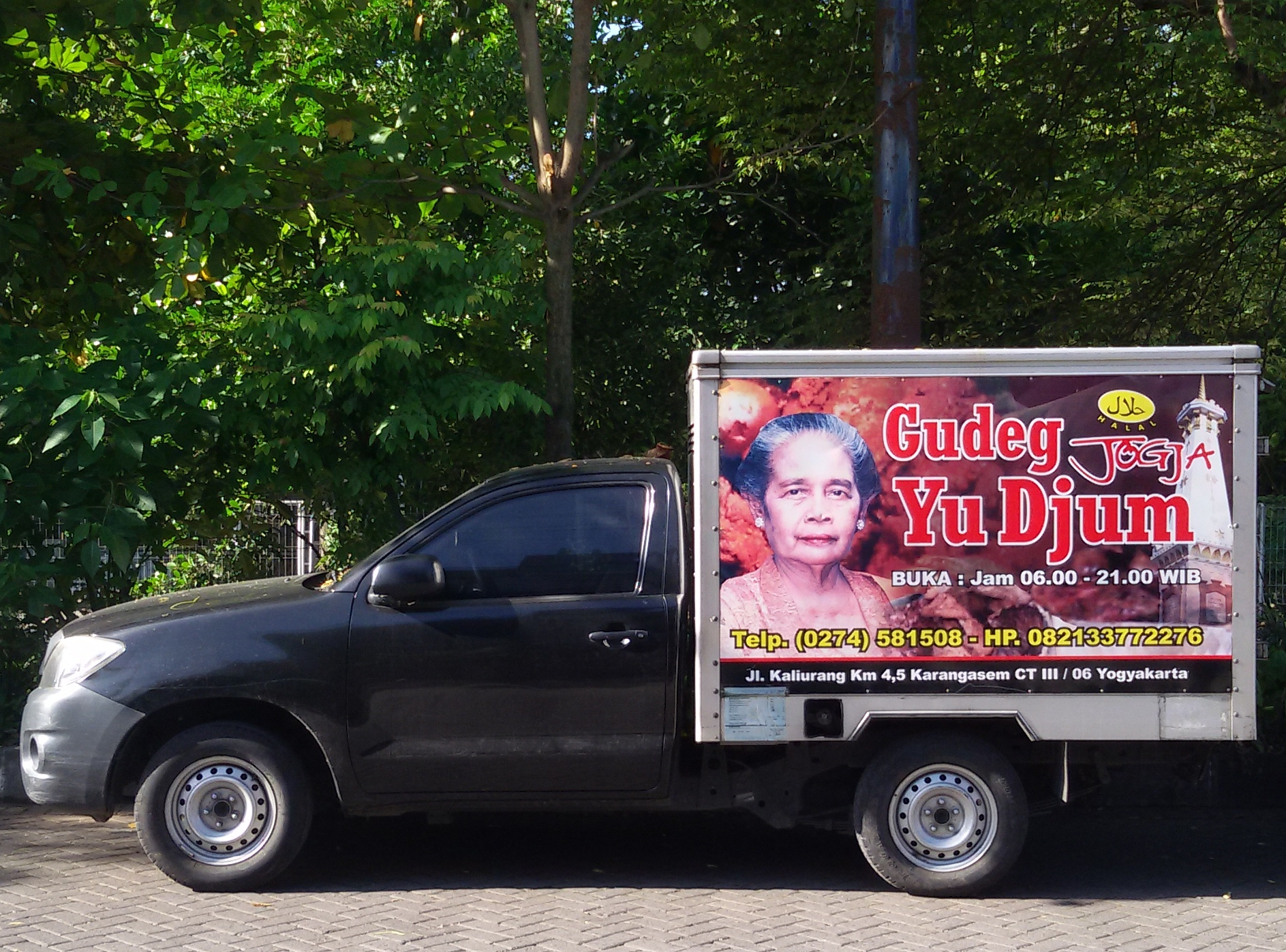 Order car of Gudeg Yu Djum